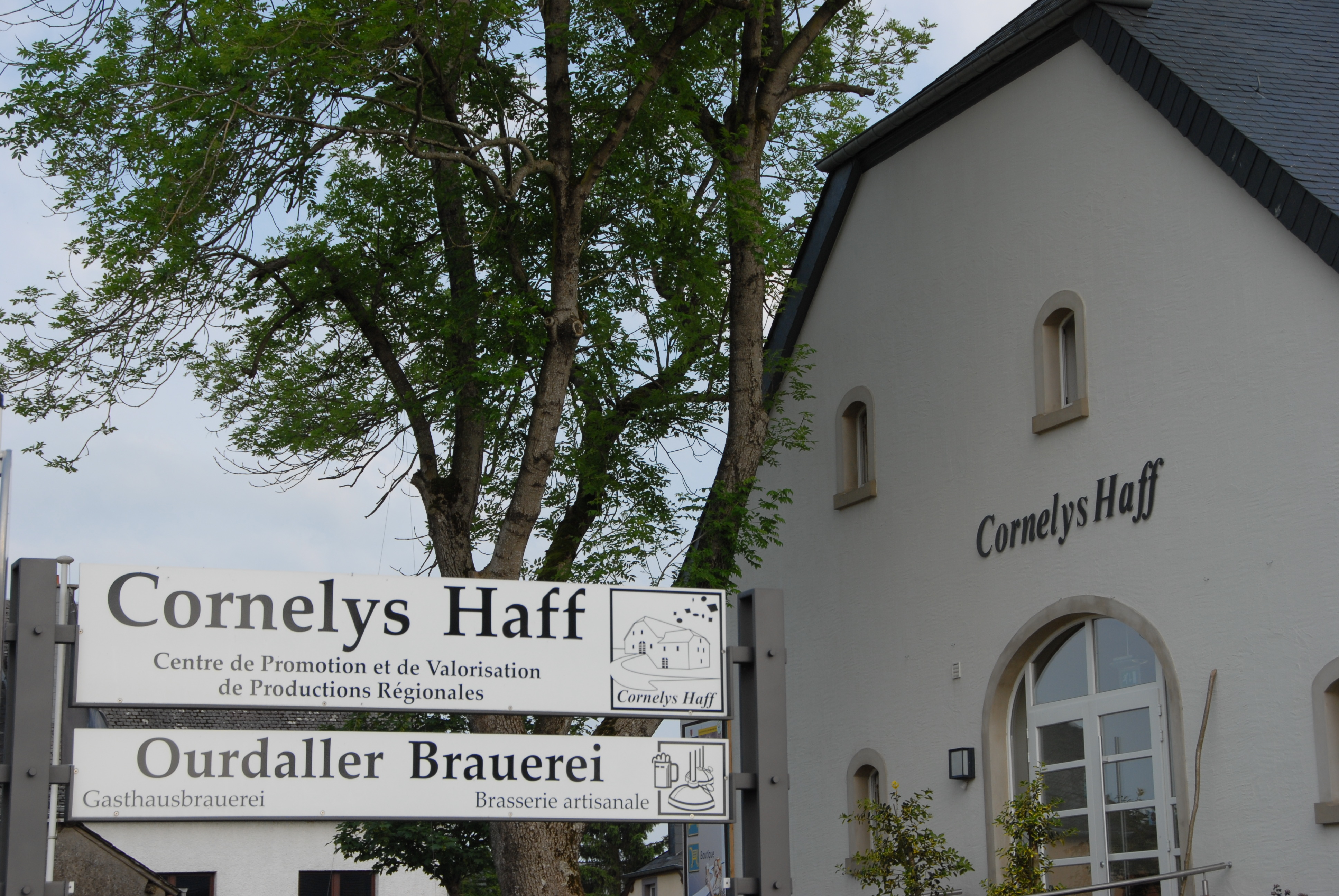 Panel at Cornelys Haff, Heinerscheid, Luxembourg.